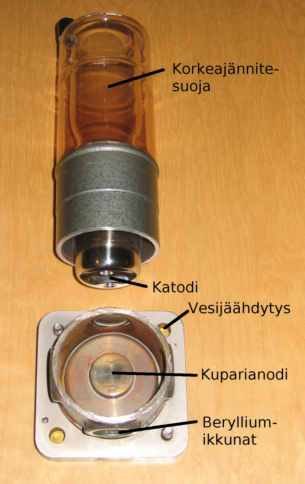 A used sealed anode x-ray tube was cut to half to give a glimpse to the inside. The tube is water cooled, has a copper anode and four beryllium exit windows for the x rays. Photo taken at the Department of Physical Sciences, University of Helsinki, Finland.